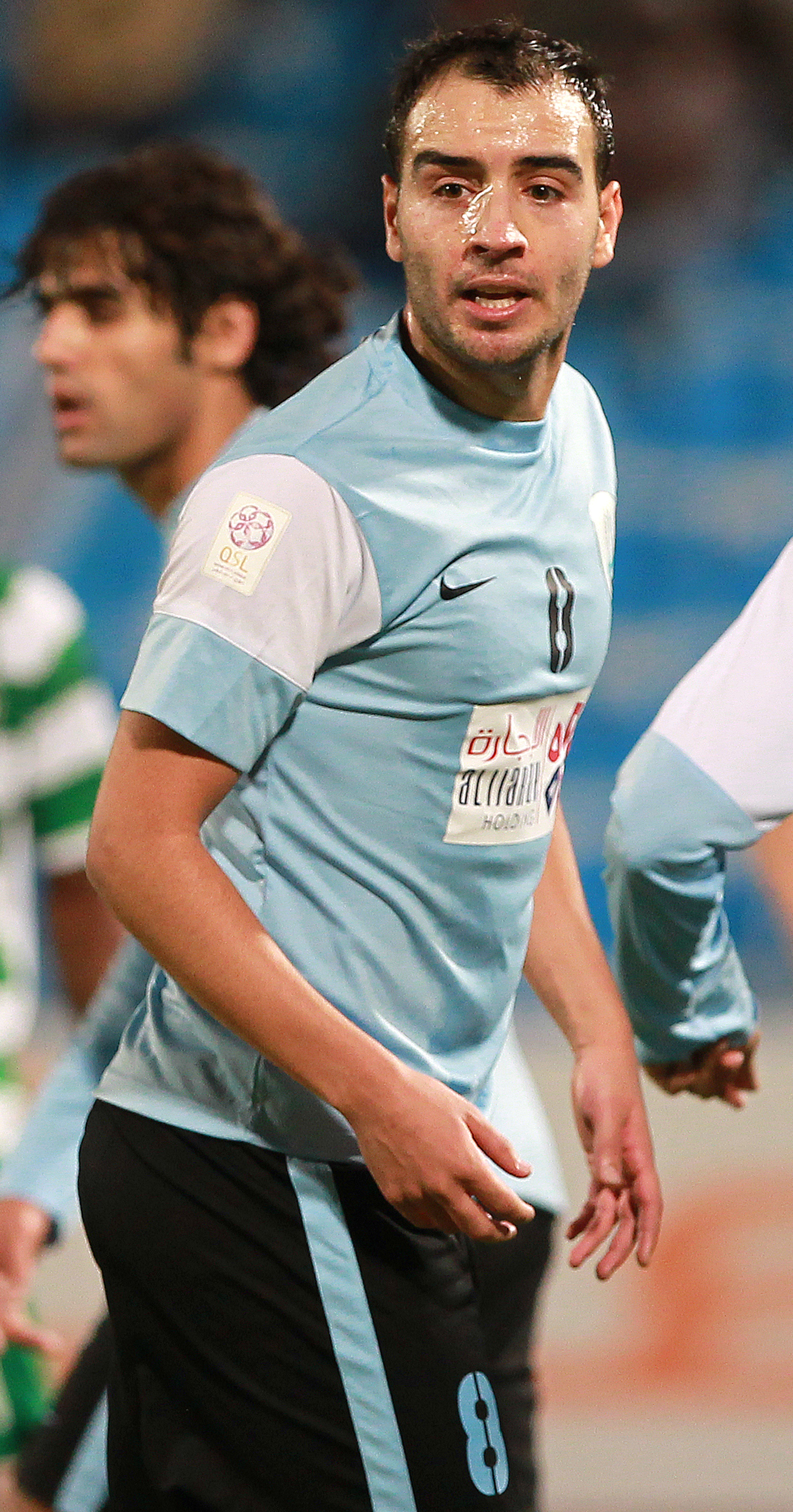 Al Wakra's Dutch professional Said Boutahar reacts during a Qatar Stars League match. Pic by AK Bijuraj